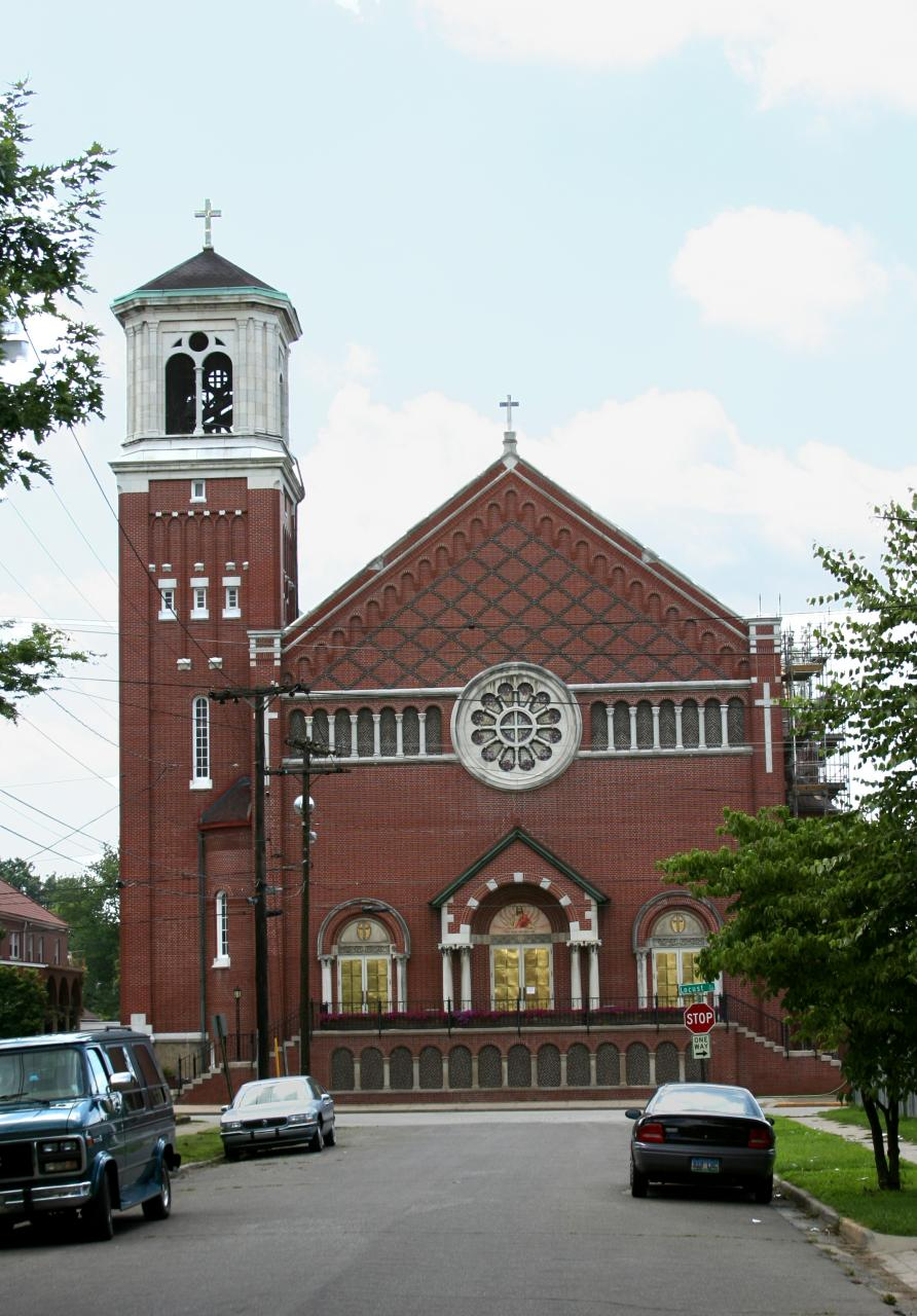 St. Stephen Cathedral in Owensboro, Kentucky (USA).